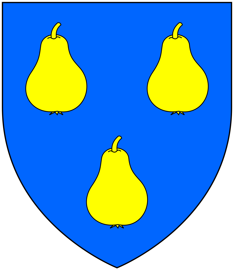 Arms of Stucley: Azure, three pears pendant or (Vivian, Lt.Col. J.L., (Ed.) The Visitation of the County of Devon: Comprising the Heralds' Visitations of 1531, 1564 & 1620, Exeter, 1895, p.721; Debrett's Peerage, 1968, p.768)